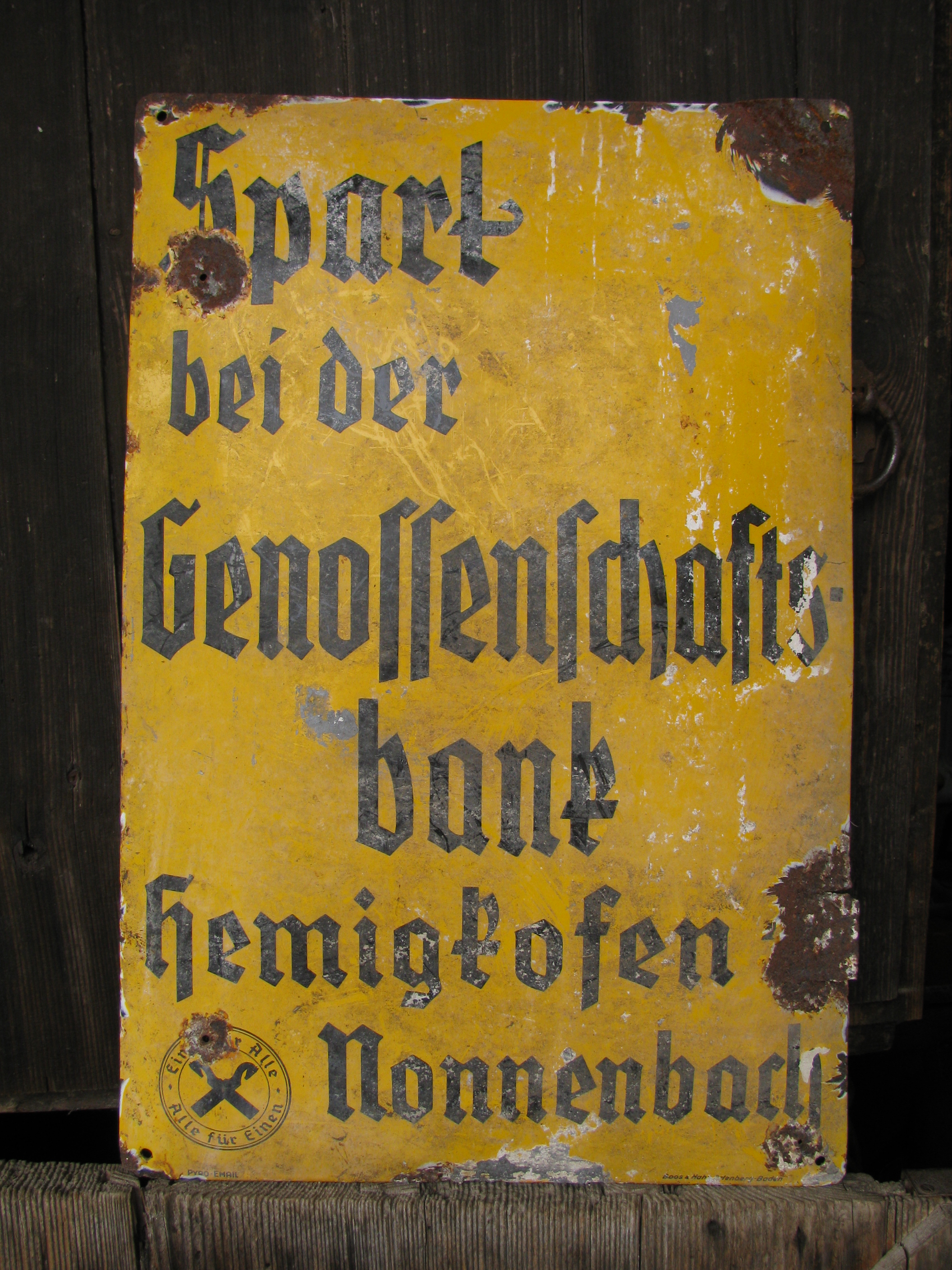 Germany - Baden-Württemberg - Bodenseekreis - Hemigkofen/Nonnenbach (today = Kressbronn am Bodensee): advertising sign 'savings in the credit union of Hemigkofen-Nonnenbach'